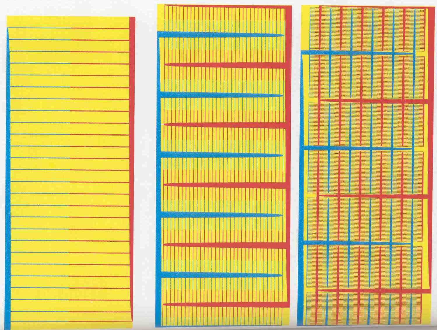 First, second and third-order designs for the construction design of a cooling system. Coolant, chilled and hot fluid material displayed in blue, yellow and red, respectively.